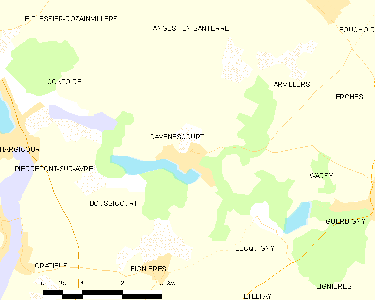 Map of French municipality Davenescourt